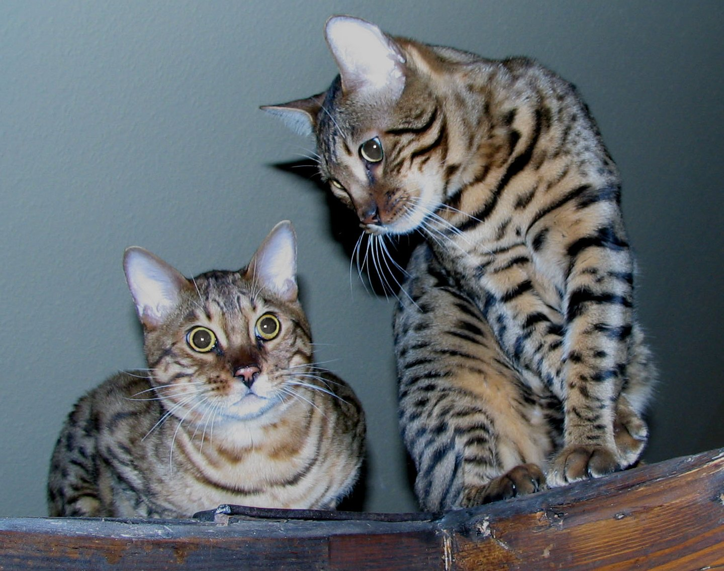 Two male Bengal Cats.